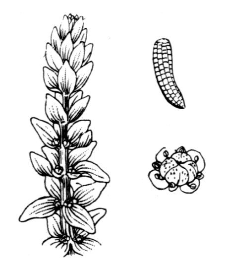 Elatinae alsinastrum